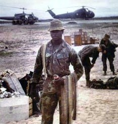 Image of Robert Jenkins USMC MOH